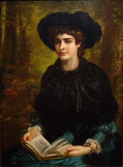 Portrait of Constance Lloyd by Louis William Desanges 1882. Oil on canvas.